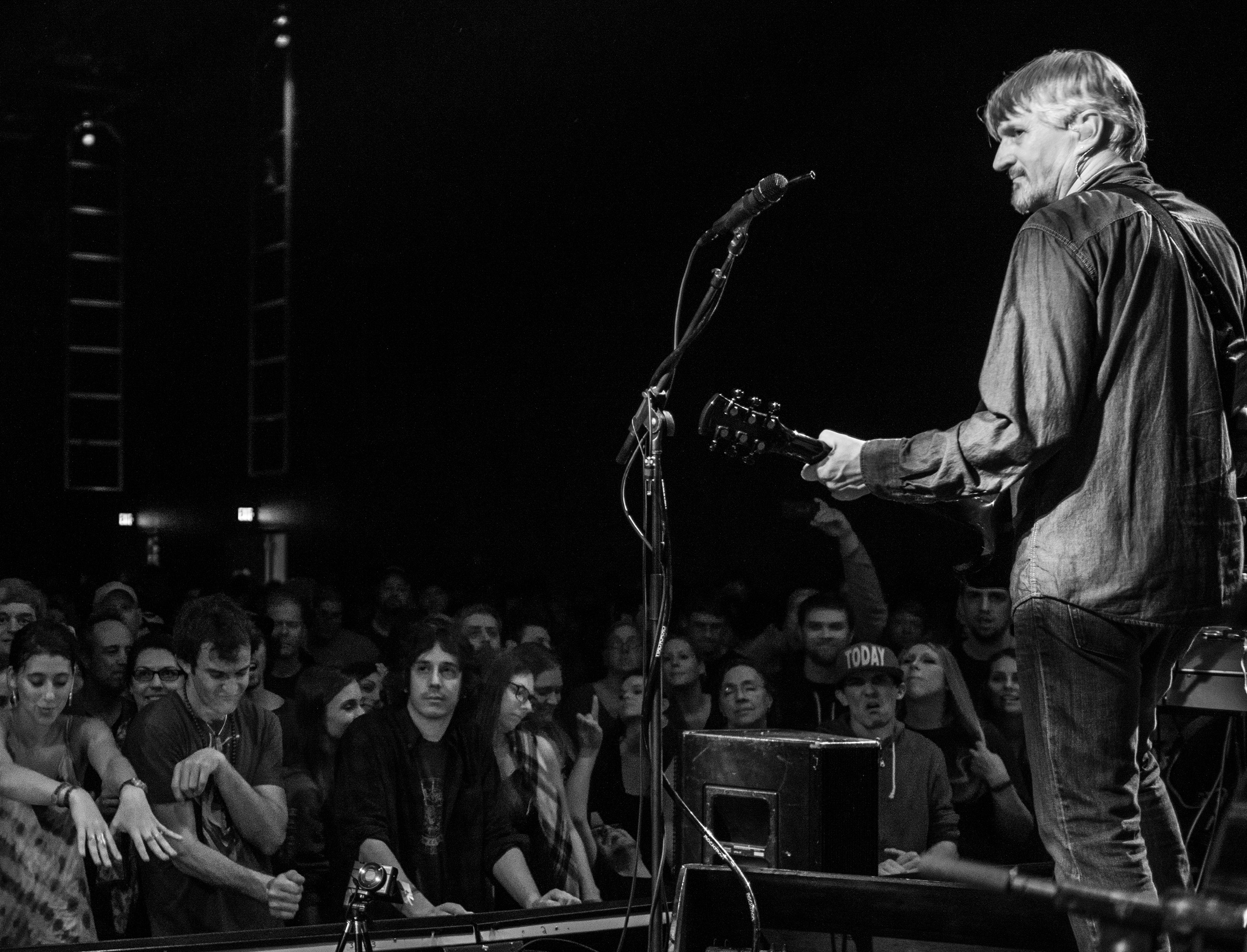 Photo for Scott Murawski